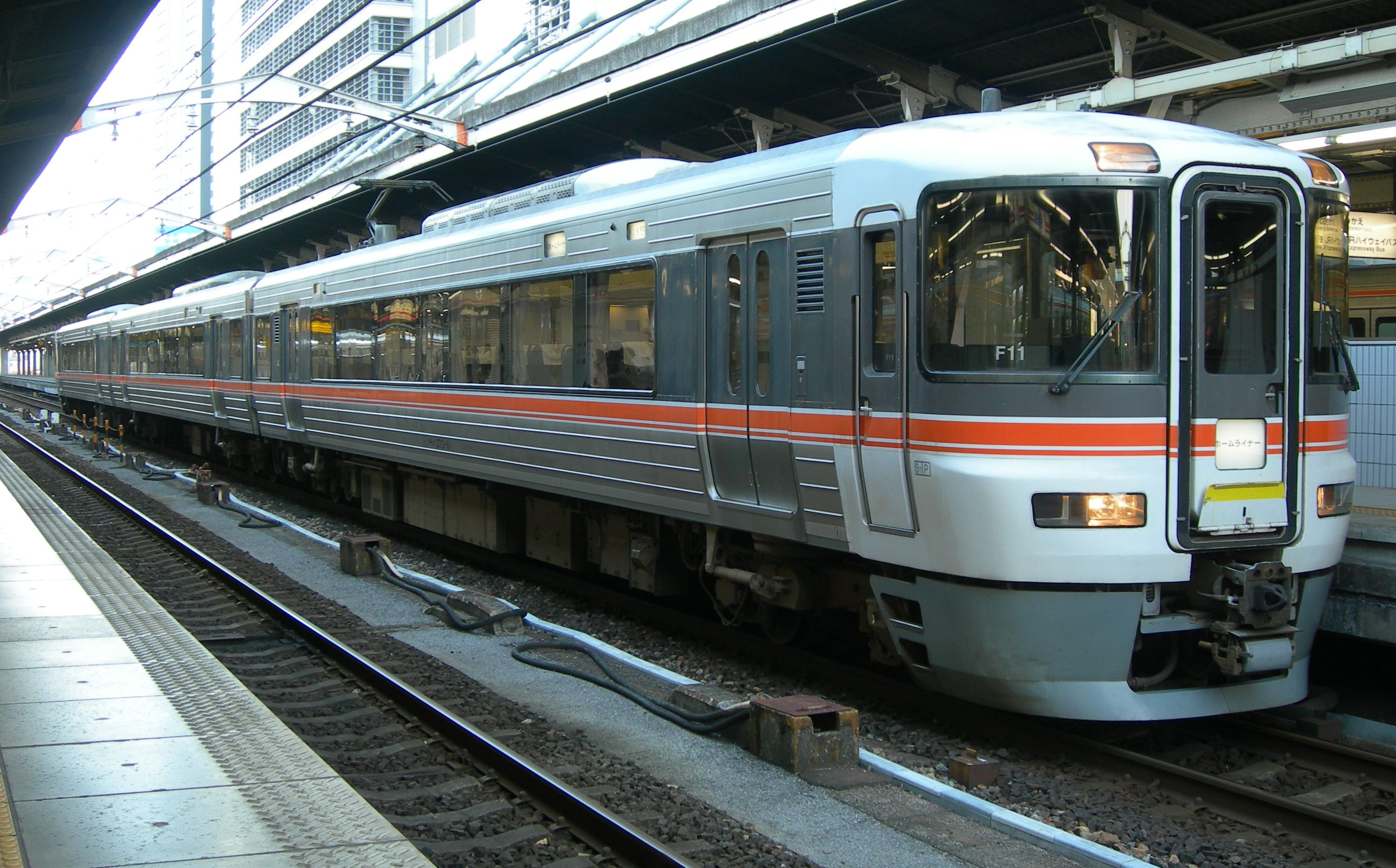 JR Central 373 series 3-car EMU set F11 on a Home Liner service at Nagoya Station